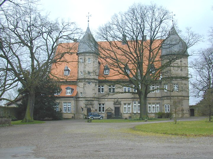 Schloss in Barntrup (Weserrenaissance) This is a photograph of an architectural monument.